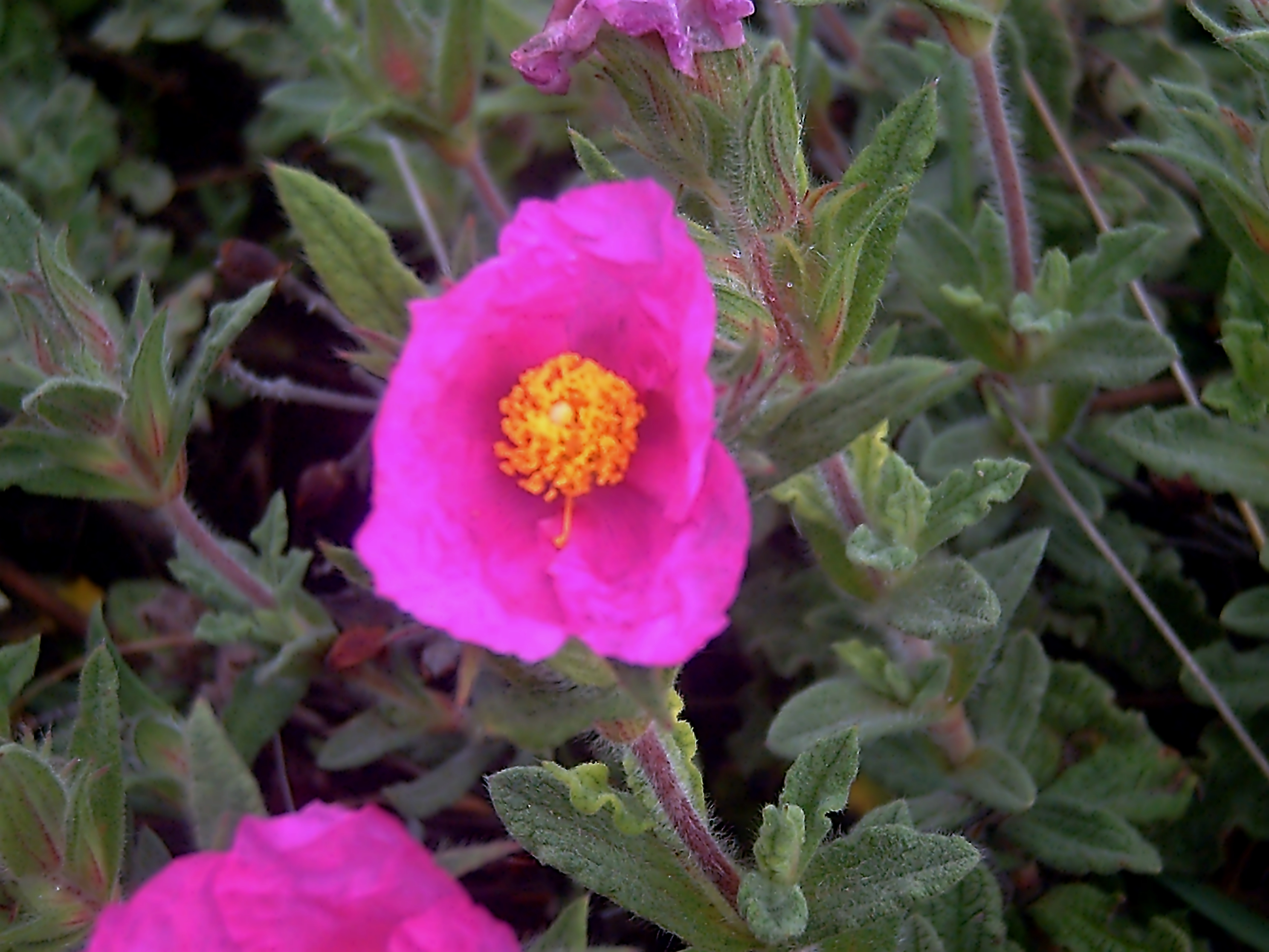 Cistus crispus flower closeup Dehesa Boyal de Puertollano, Spain